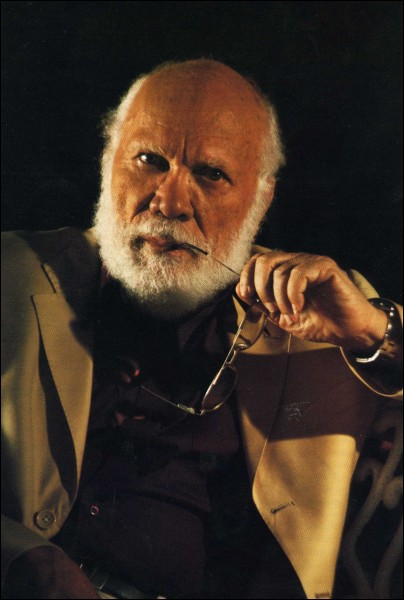 haitian author, poet, playwright, musician and painter Frankétienne